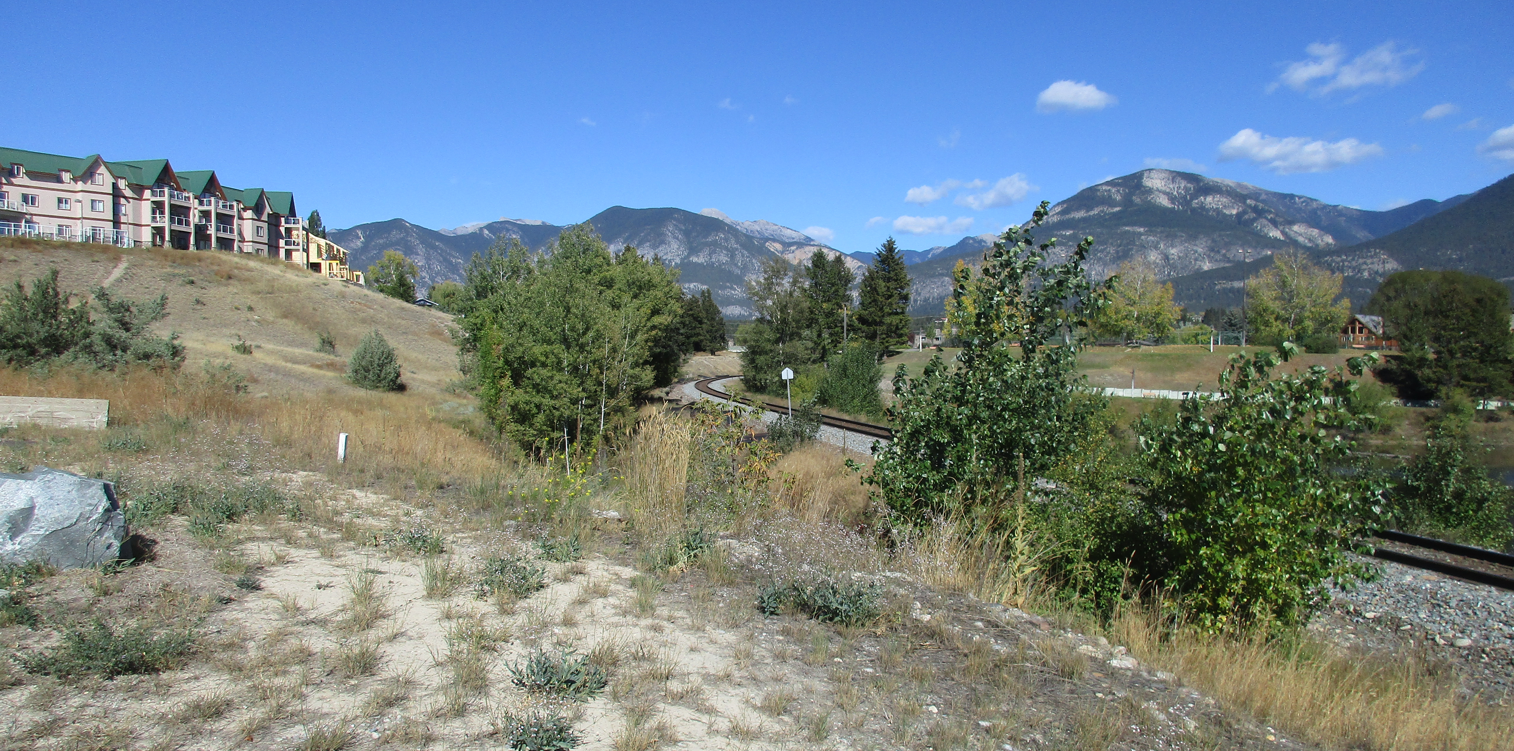 Train Track in Invermere, BC, Canada